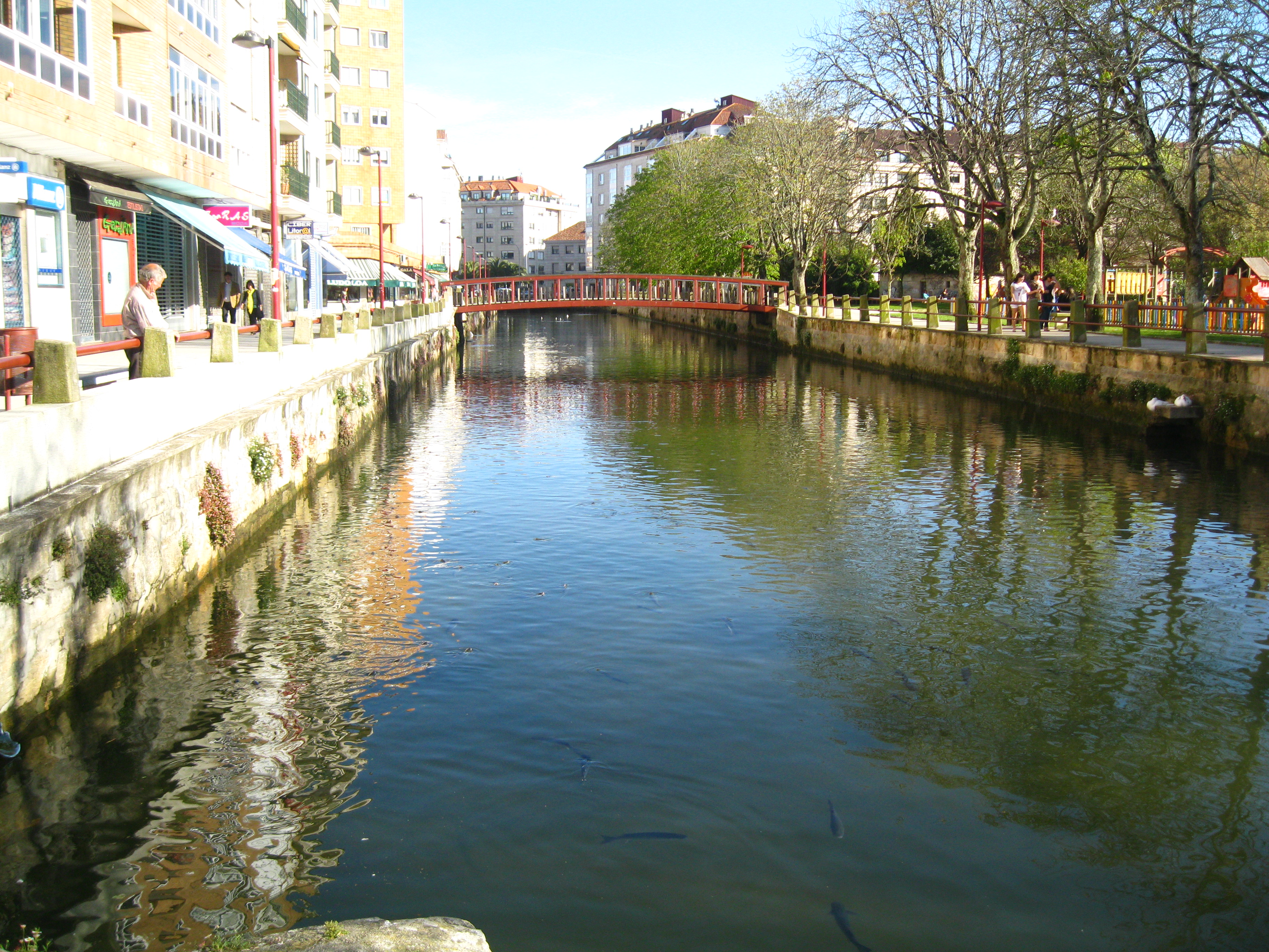 River Con in Vilagarcía de Arousa, in Galicia, Spain.